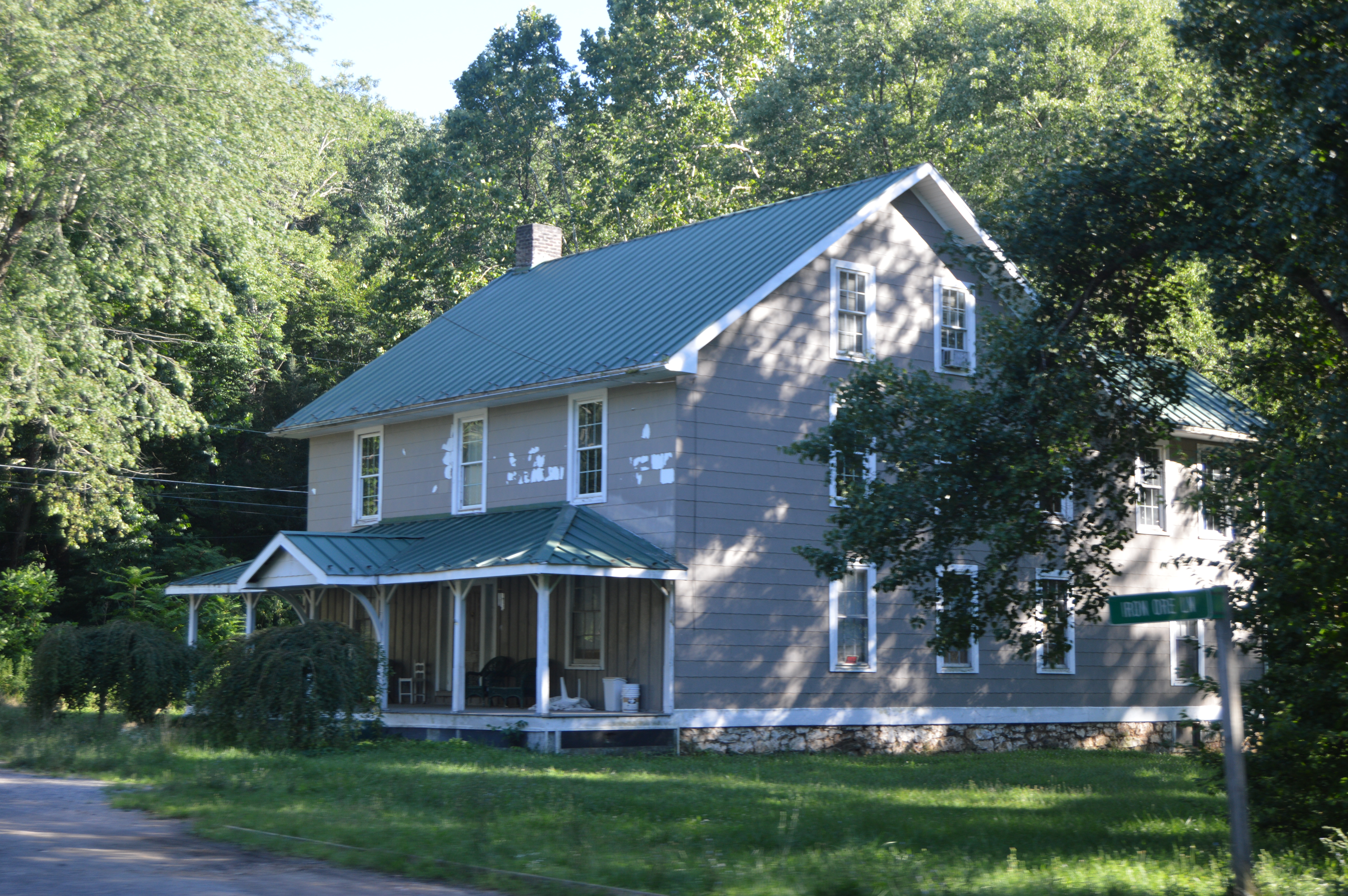 A house on the southeastern side of State Route 269 at Longdale Furnace in Alleghany County, Virginia, United States. The community is listed on the National Register of Historic Places as a historic district.